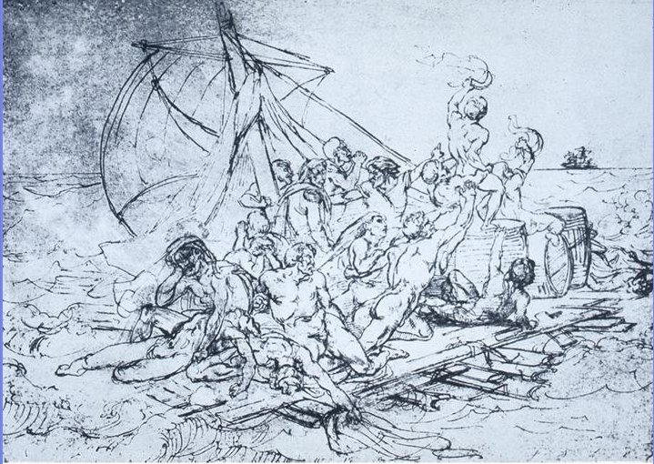 Pencil, pen, and sepia study for The Raft of the Medusa, 41 x 55 cm. Not dated. In the collection of the Louvre, Paris.